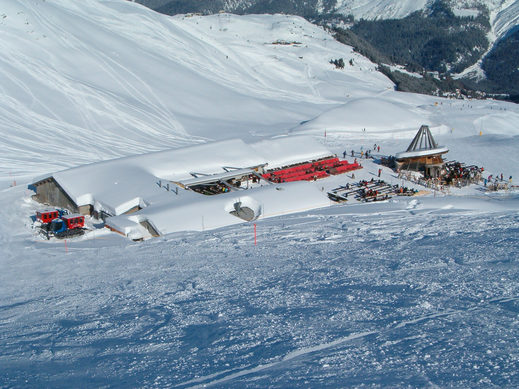 Carmenna-Hut in Arosa, Switzerland